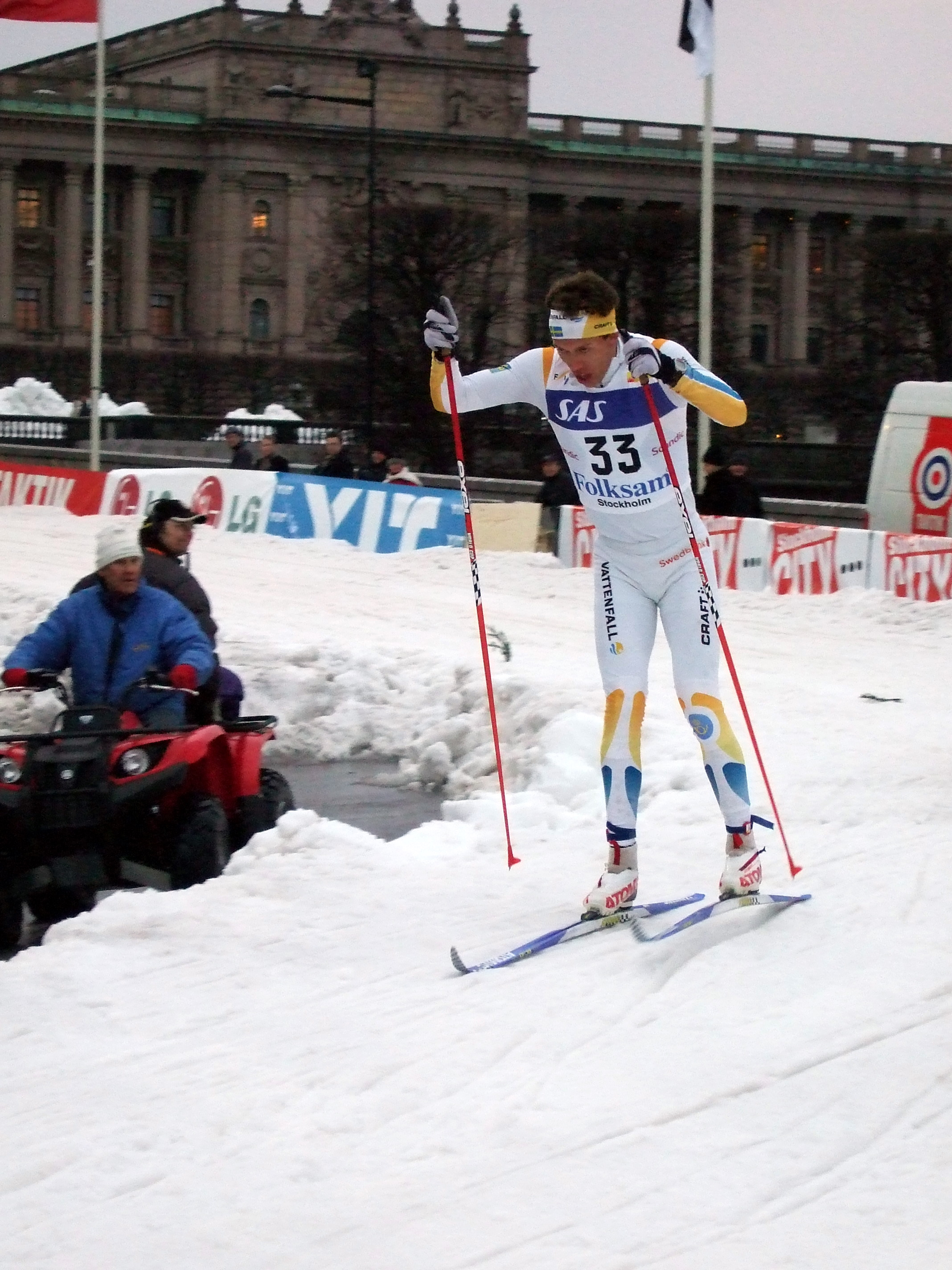 Marcus Hellner at the Royal Castle World Cup sprint in Stockholm, Sweden